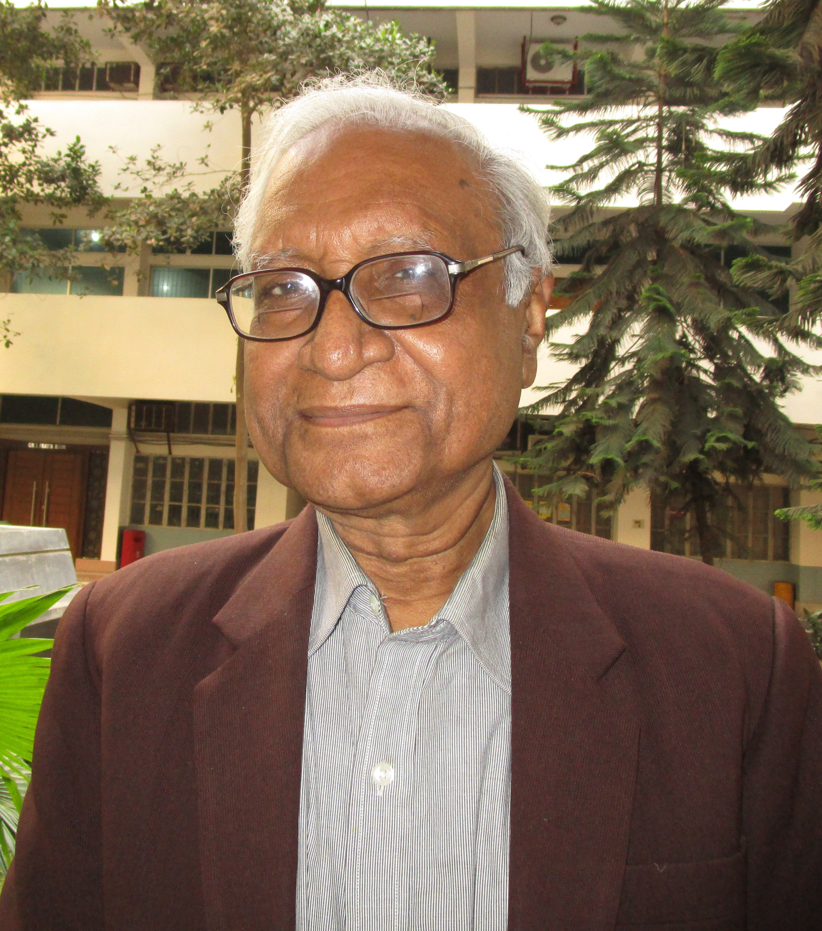 Serajul Islam Choudhury at University of Dhaka on 24 February, 2015.